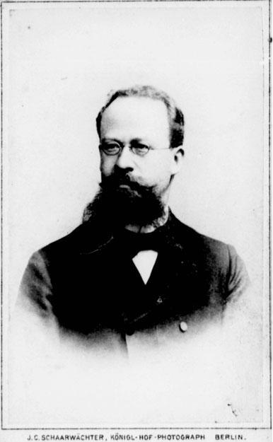 Ernst Malachowski